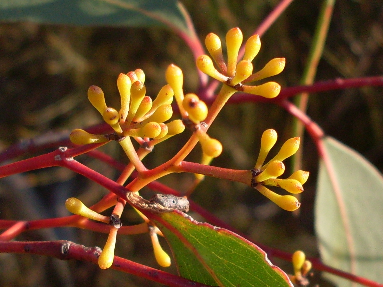 Scribbly gum (Eucalyptus haemastoma) in bud. Royal National Park, NSW Australia, May 2009.